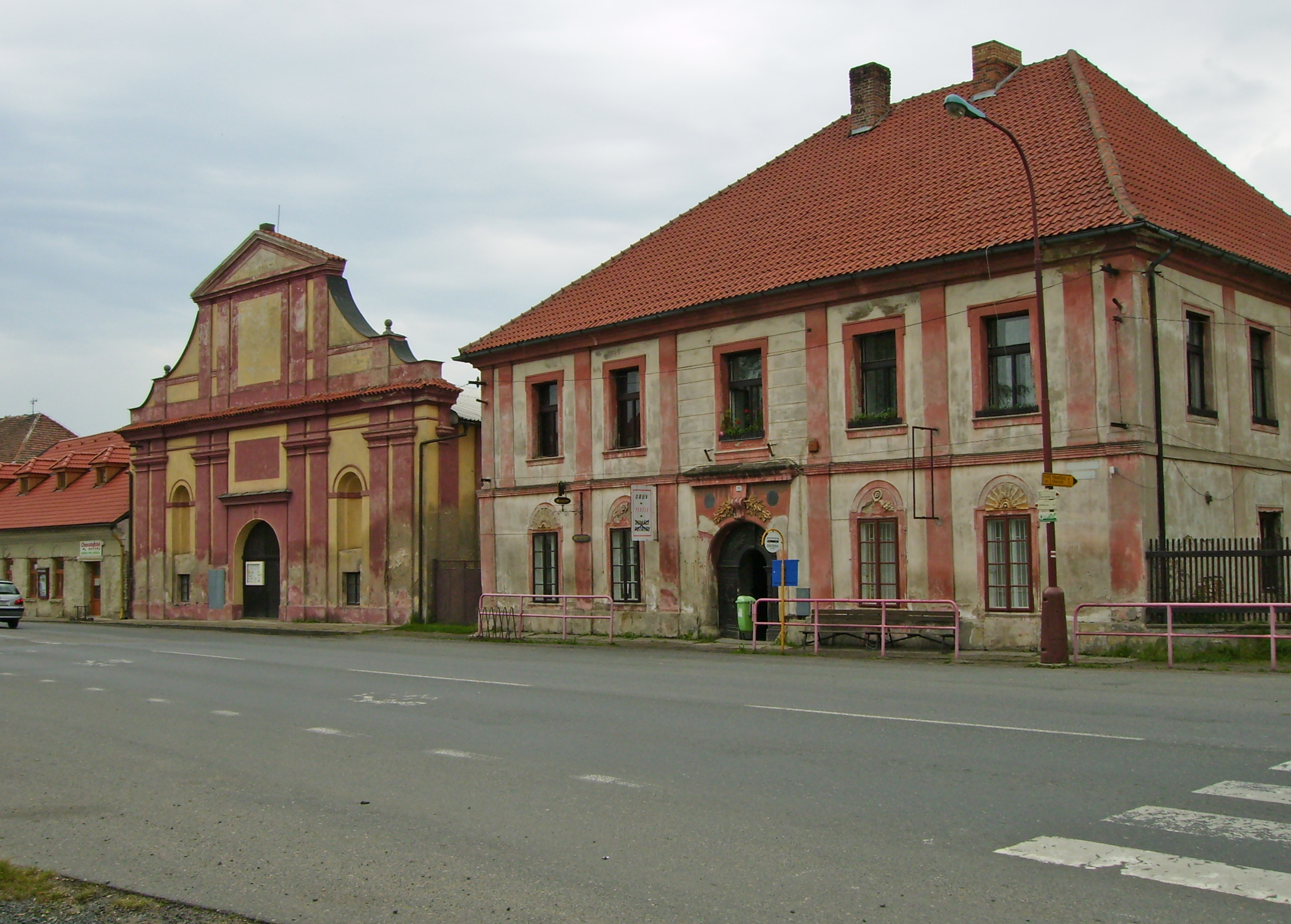 Houses next to chateau in Nové Dvory, Kutná Hora District, Czech Republic. In the left former riding hall (today a Sokol gymnasium), in the fight flats for chateau personnel (later a post office).